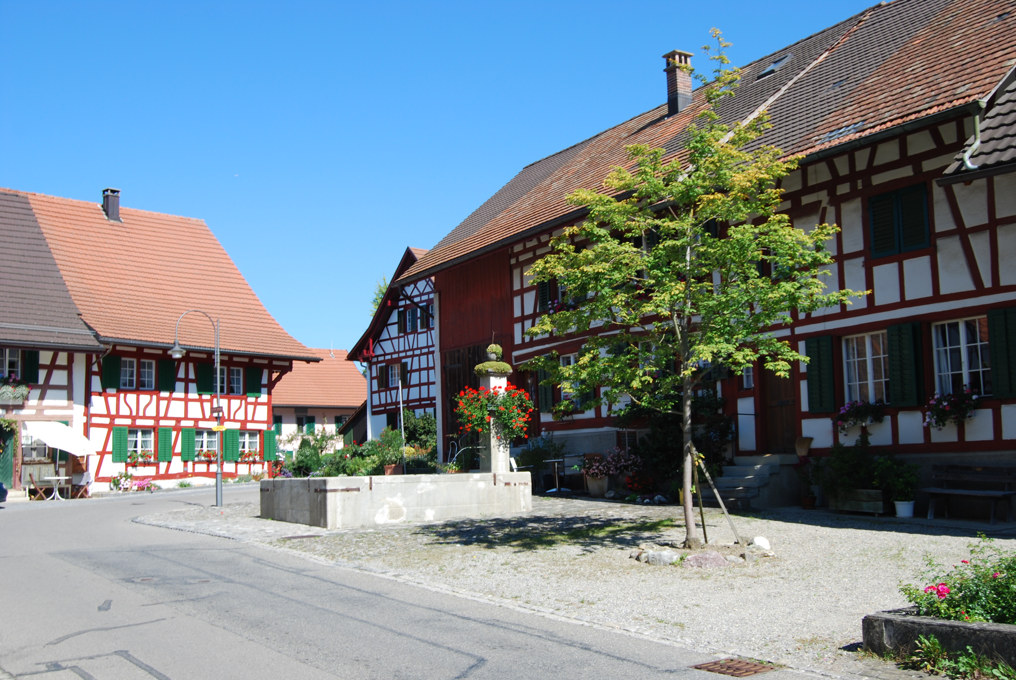 Village fountain at Unterstammheim, canton of Zürich, SwitzerlandEsperanto: Vilaĝa puto en Unterstammheim, Kantono Zürich, Svislando